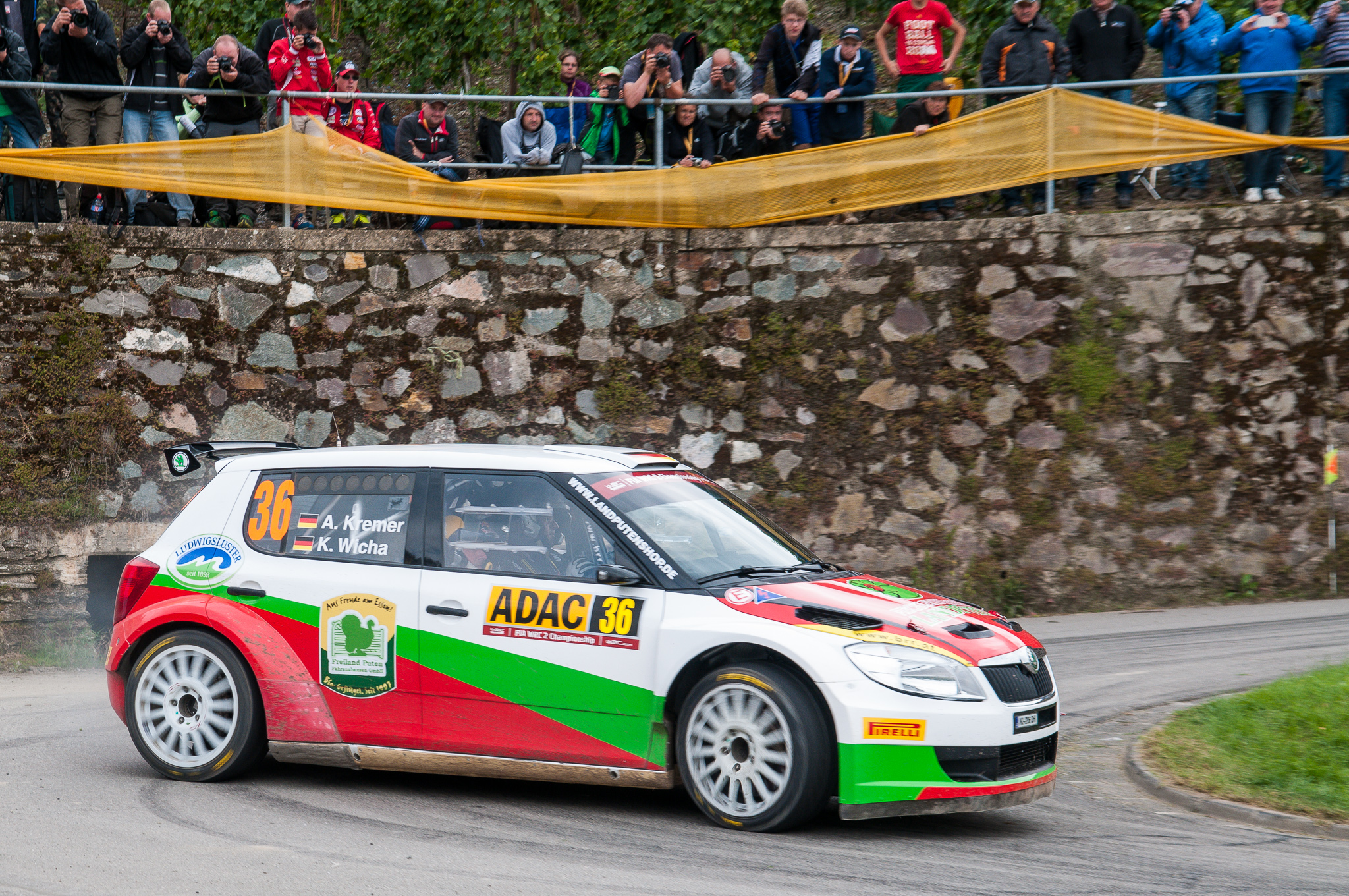 ADAC Rallye Deutschland 2014,Armin Kremer,FIA,FIA World Rally Championship,Klaus Wicha,Moselland 1,Motorsport,Rally,Rallye,SS 3,Skoda Fabia S2000,WP 3,WRC 2